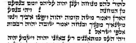 Hebrew Bible text of Numbers 10:33-11:1 as written in a Torah Scroll, Sefer Torah.